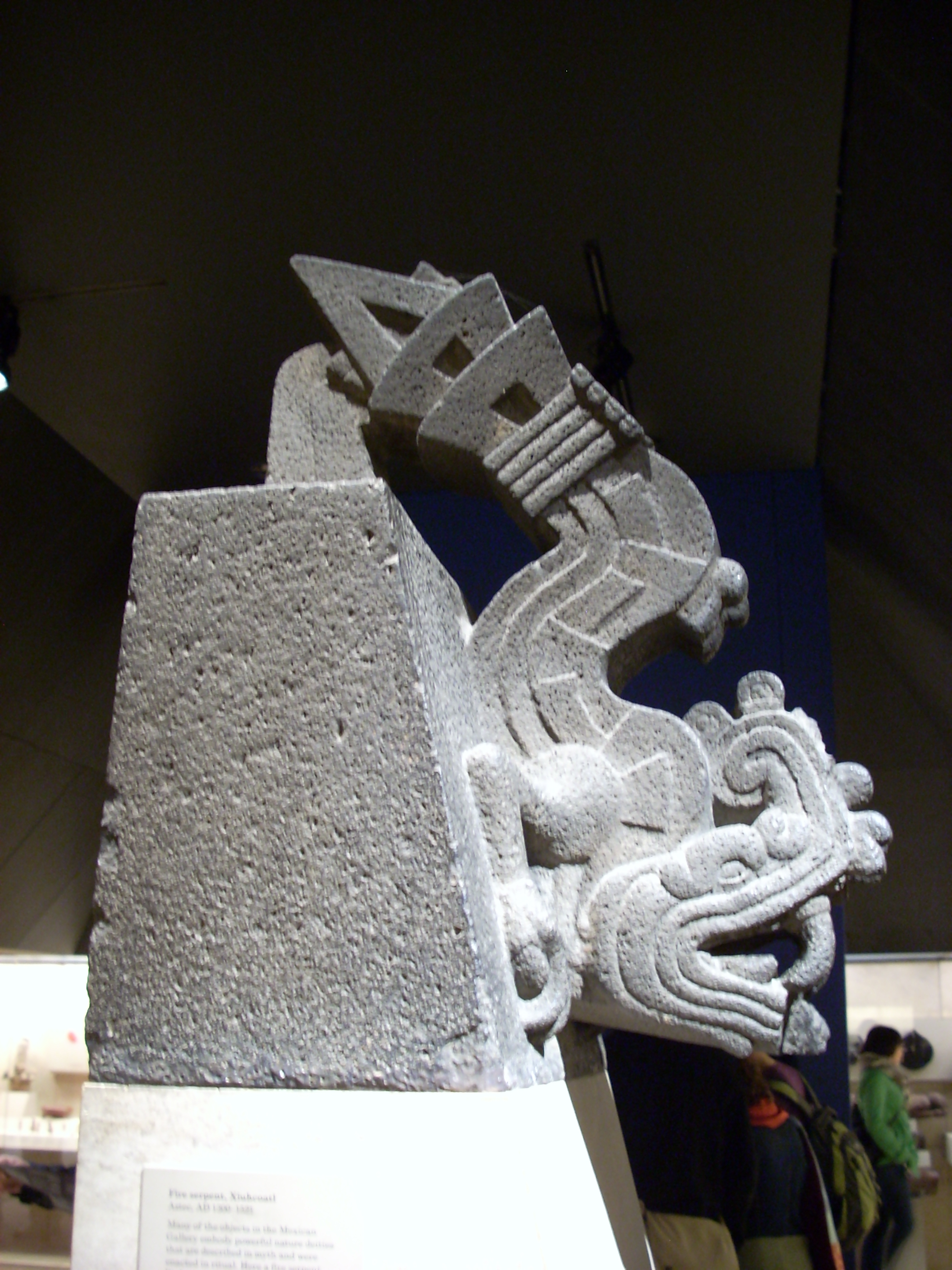 Aztec sculpture of Xiuhcoatl, the Fire Serpent, in the Mexican Gallery of the British Museum, London.